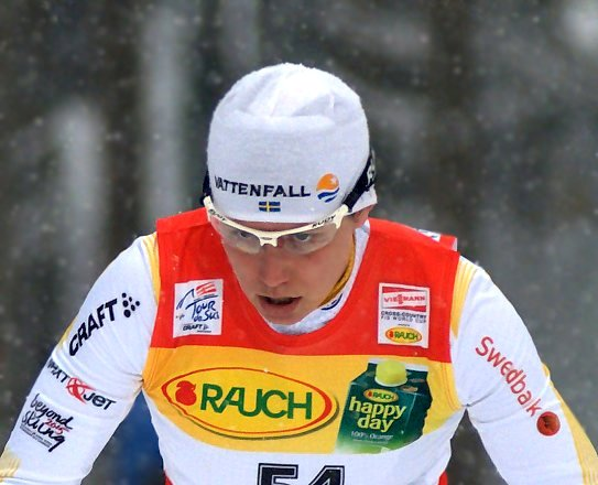 Ida Ingemarsdotter at the Tour de Ski 2010 in Oberhof